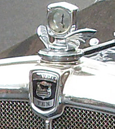 Radiator badge of a first registered March 1933 Morris Ten